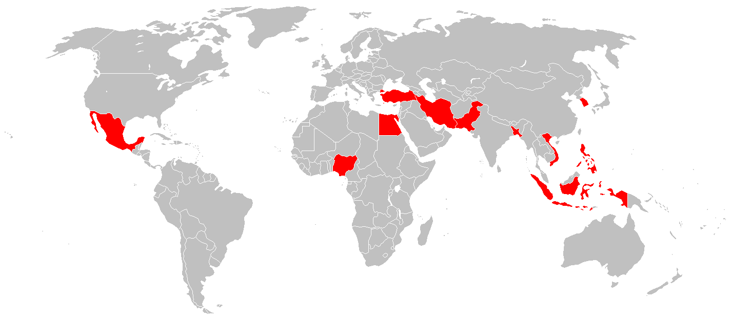 A Map of the Next Eleven Members, Created from the Blank World Map by User:Vardion